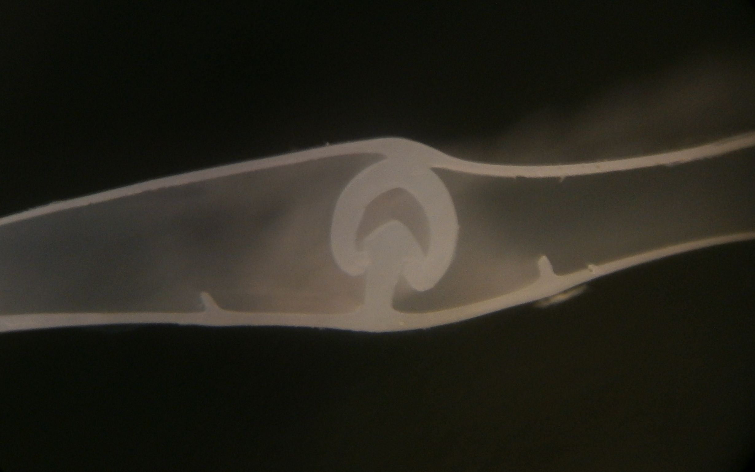 Ziploc Close-UP intersection